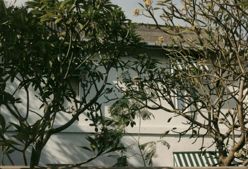 No 5 Maha Nuge Gardens, one of the oldest houses in the City of Colombo, Sri Lanka